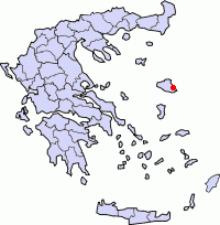 locator map, based on Image:Prefectures Greece grey.png